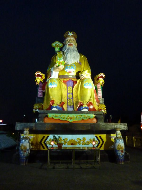 FuAn Temple Hualien